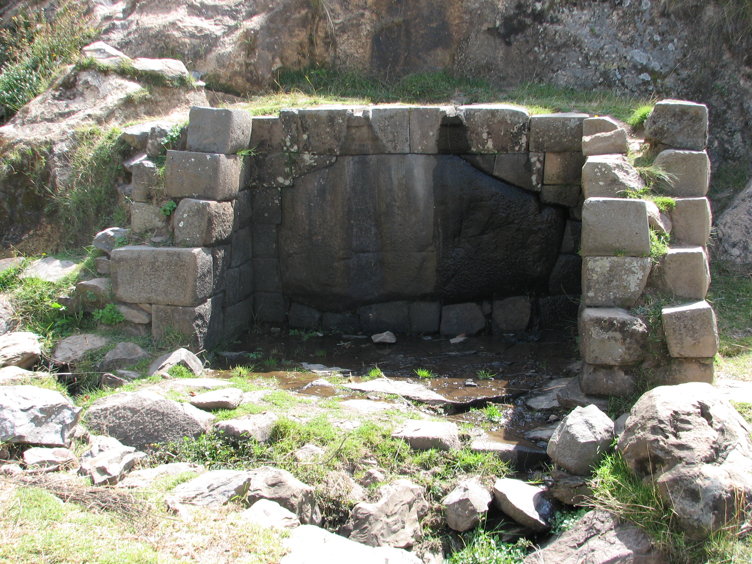 Pumacocha Archaeological site (bath)